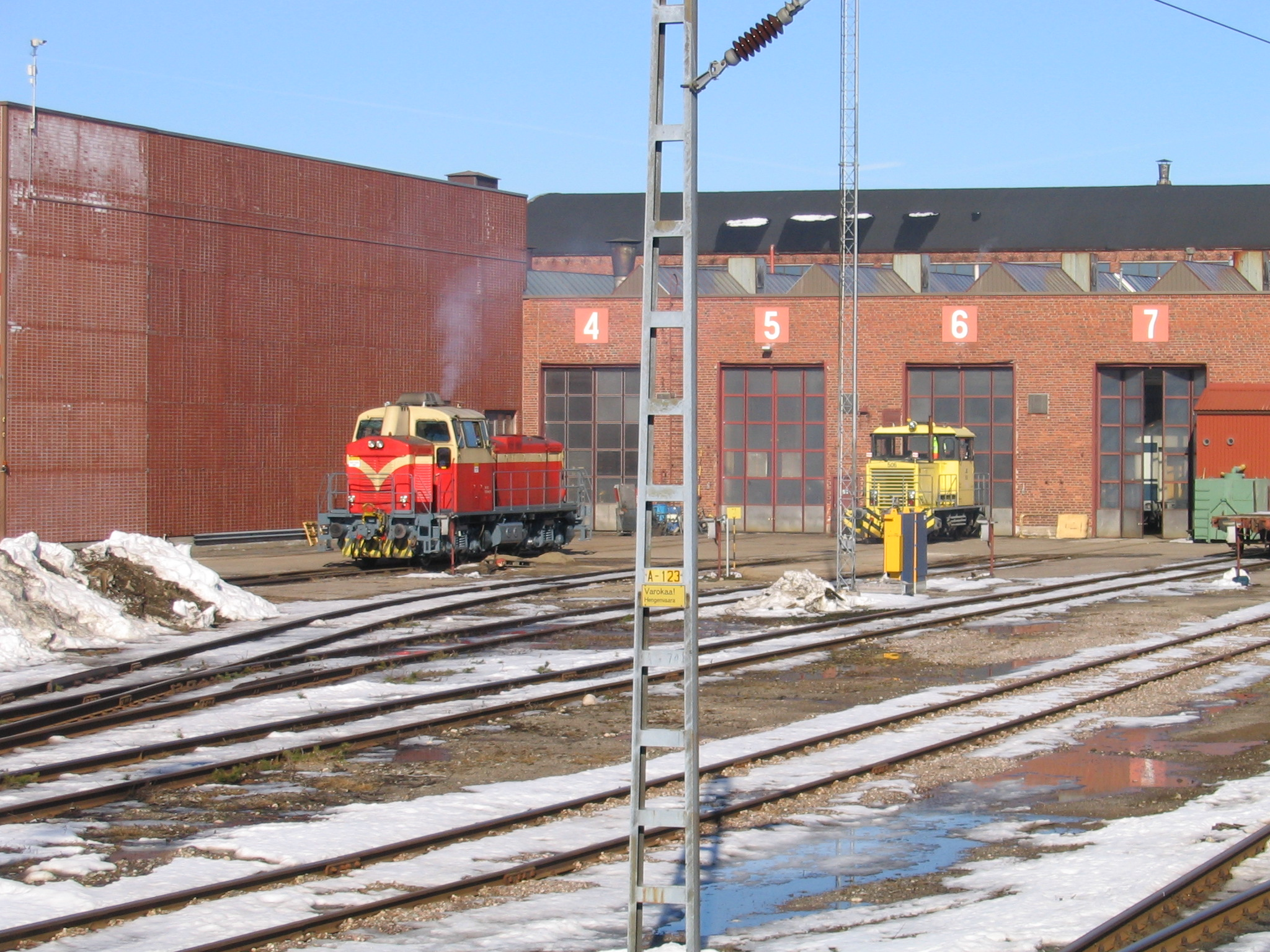 VR Class Dv12 (no. 2710) and Tve4 (no. 506) diesel locomotives in Hyvinkää, Finland